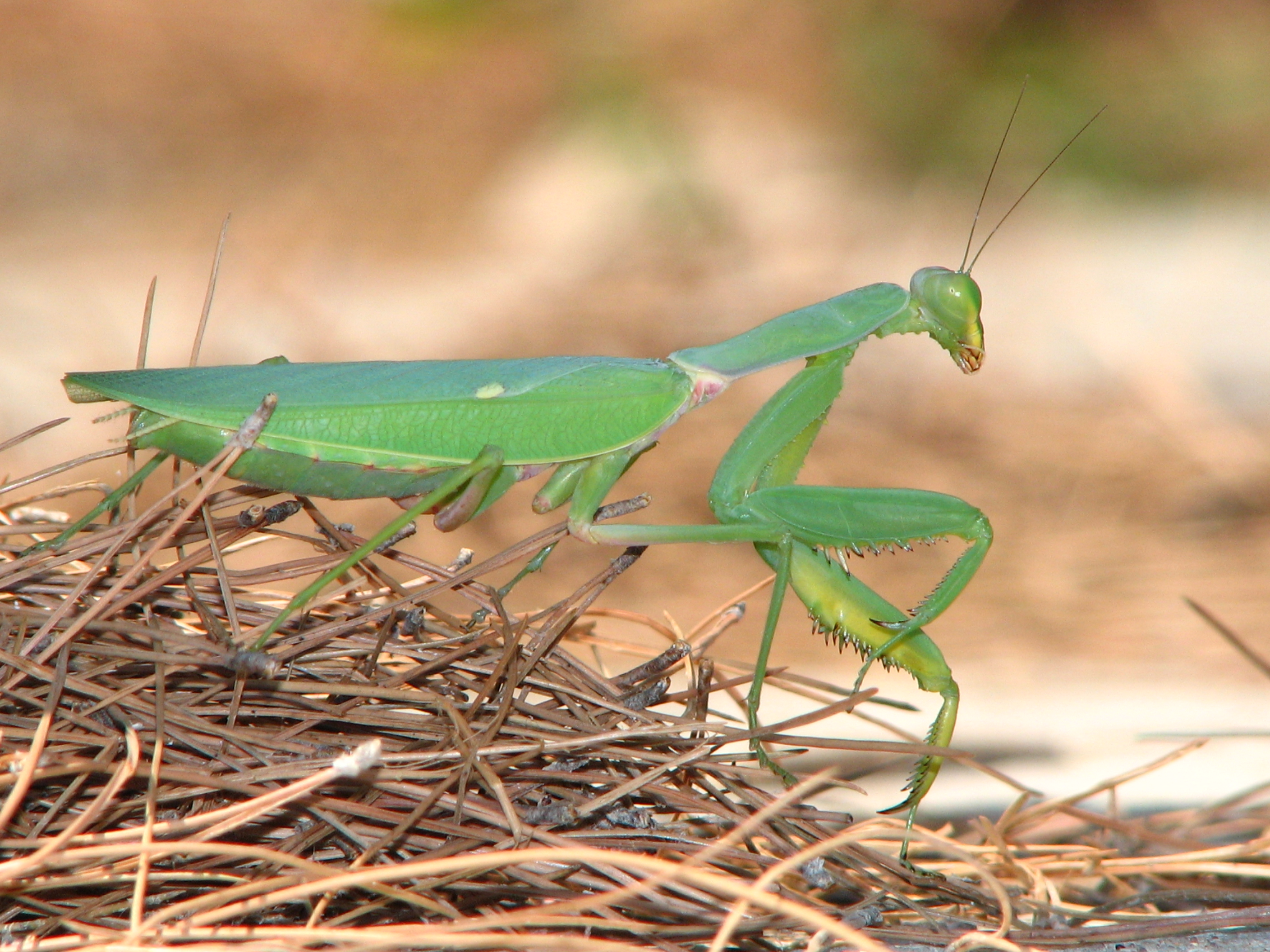 Praying mantis, Sphodromantis viridis. Picture was taken in Alonisos, Greece. Kudos to Lycaon for the proper identification of the species.